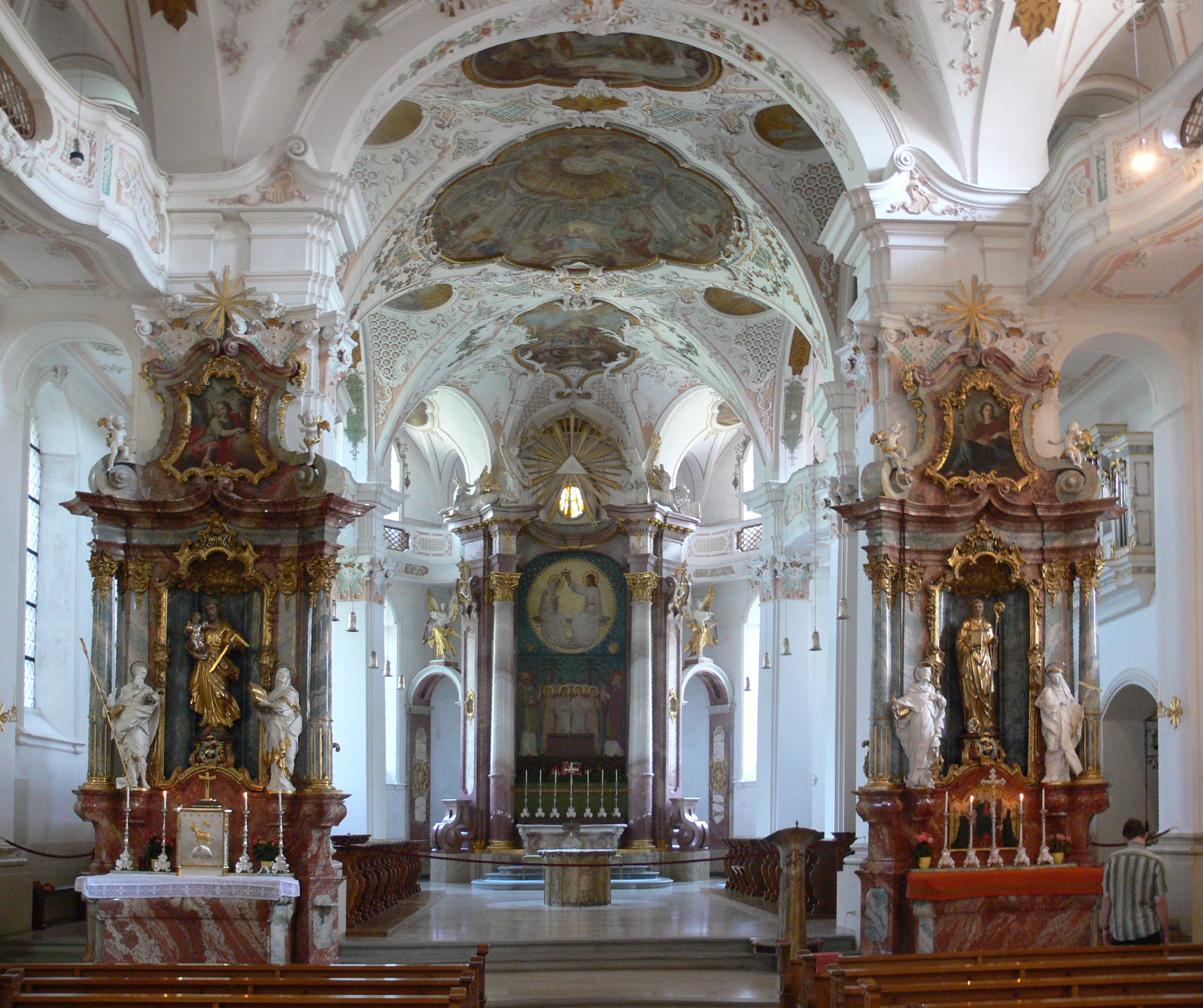 Abteikirche St. Martin, Beuron Hochaltar (Aufbau von Feuchtmayer und Dirr mit Atlarblatt von Wüger und Steiner), und zwei Seitenaltäre von Feuchtmayer und Dirr Joseph Anton Feuchtmayer (1696–1770) Alternative names Joseph Feichtmayr; Joseph Anton Feichtmayr; Joseph Anton Feichtmayer; Joseph Anton Faichtmair; Joseph Feuchtmayer; Joseph Feuchtmair; josef anton feuchtmayerDescriptionGerman sculptorDate of birth/death 1696 2 January 1770Location of birth/death Linz Mimmenhausen bei Salem (Baden)Work location OberschwabenAuthority control : Q323434 VIAF: 69721226 ISNI: 0000 0000 6678 5681 ULAN: 500032217 LCCN: n84189350 WGA: FEUCHTMAYR, Joseph Anton WorldCat creator QS:P170,Q323434 Franz Anton Dirr (1724–1801) Description sculptorDate of birth/death 8 June 1724 15 June 1801Location of birth/death Weilheim ÜberlingenAuthority control : Q18508183 VIAF: 35615914 ISNI: 0000 0000 6686 9500 ULAN: 500111669 GND: 140137548 HDS: 022271[does not match ^[1-9]%d%d?%d?%d?%d?$ pattern] creator QS:P170,Q18508183 Gabriel Wüger (1829–1893) Alternative names Wüger, Jacob; Frater Gabriel Wüger OSBDescriptionGerman painterDate of birth/death 2 December 1829 May 1892Location of birth/death Steckborn Monte CassinoWork location BeuronAuthority control : Q5515913 VIAF: 37709698 ISNI: 0000 0000 6676 6421 ULAN: 500081480 LCCN: n83212658 GND: 118635387 WorldCat creator QS:P170,Q5515913 Lukas Steiner (1849–1906) Alternative names Steiner, Fridolin; Pater Lukas Steiner OSBDescriptionGerman painterDate of birth/death 4 July 1849 1906Location of birth/death Ingenbohl BeuronWork location BeuronAuthority control : Q18508493 VIAF: 171825454 GND: 1012581497 HDS: 022644[does not match ^[1-9]%d%d?%d?%d?%d?$ pattern] SIKART: 4023295 creator QS:P170,Q18508493